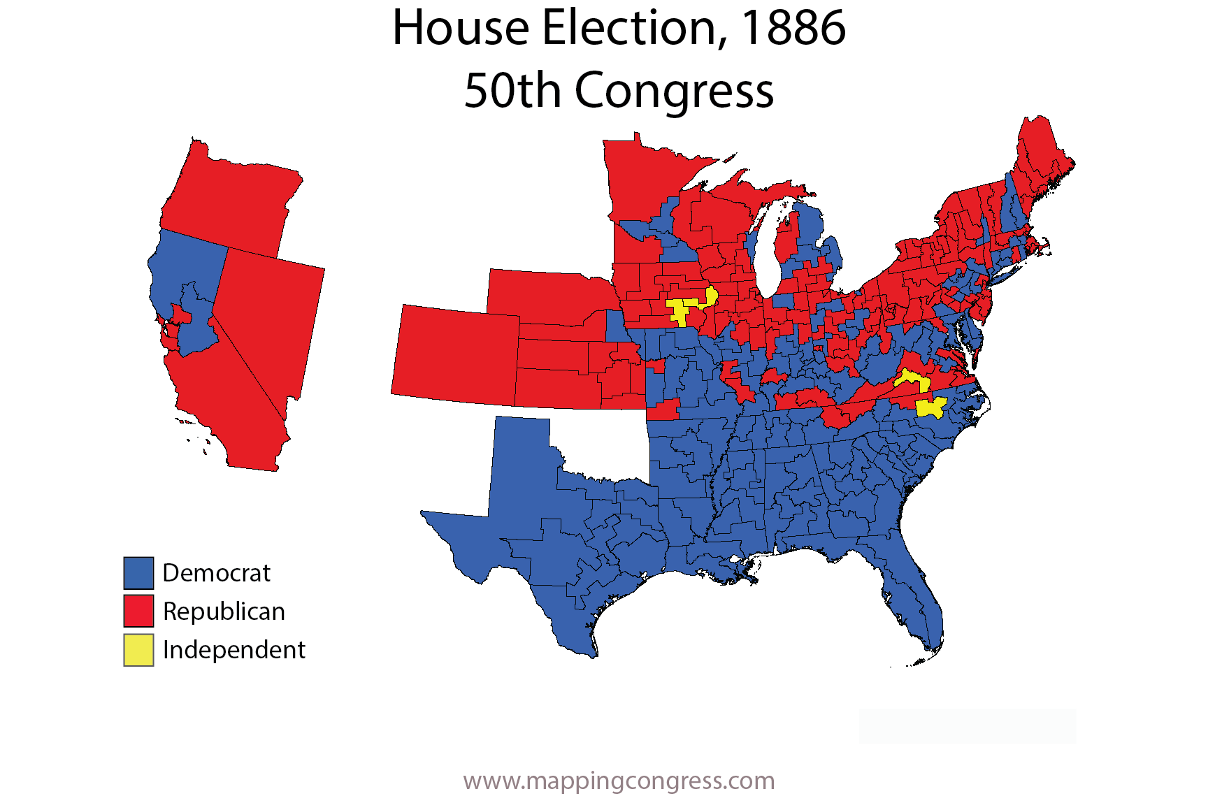 Map of U.S. House elections results from 1886 elections for 50th Congress